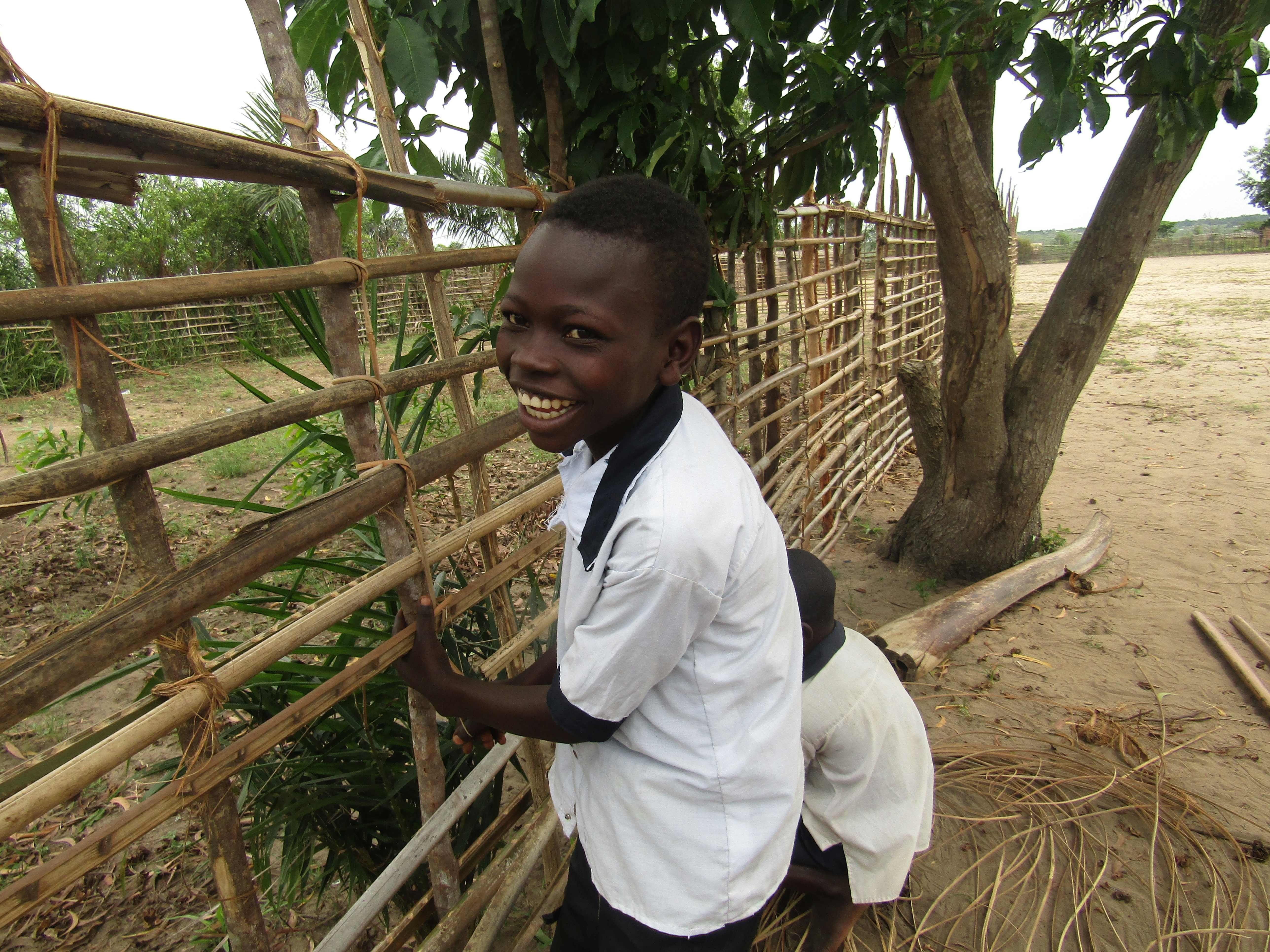 children building the fence of their school Idiofa This is an image of "African people at work" from Democratic Republic of the Congo